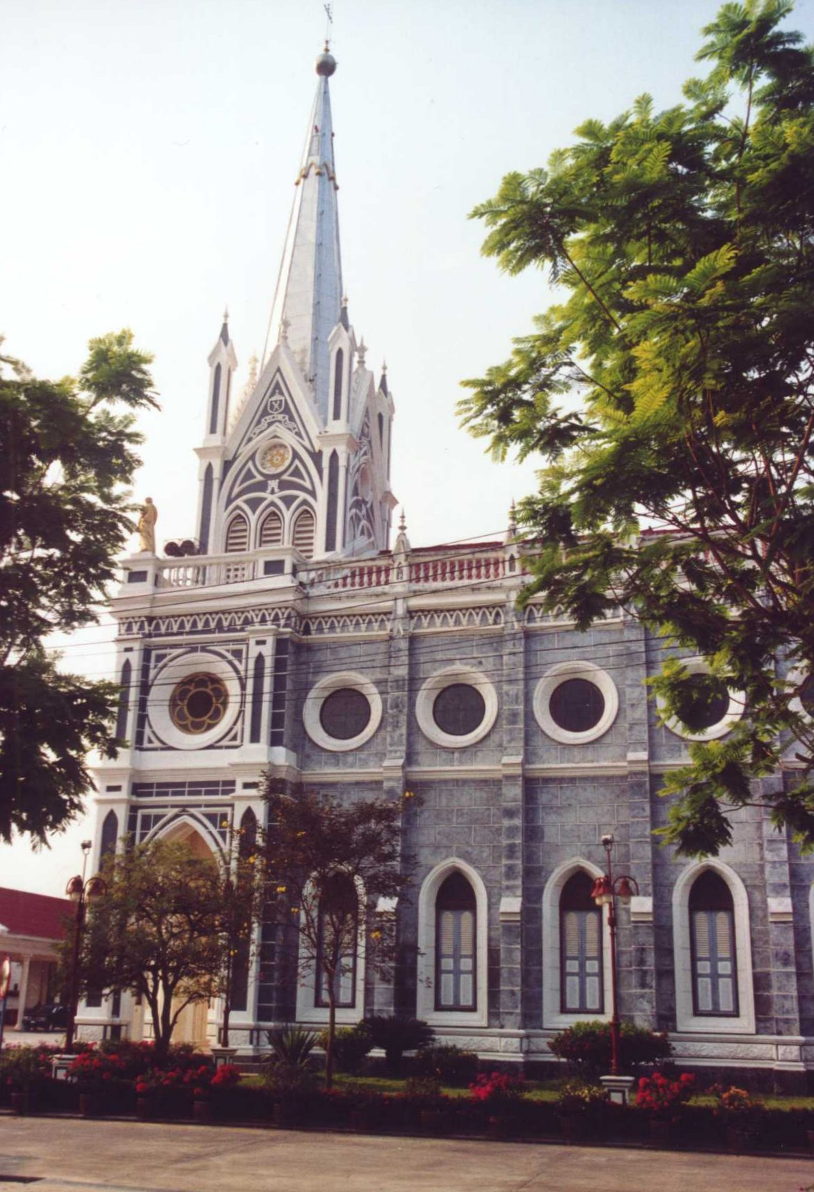 Nativity of Our Lady Cathedral, Bang Nok Khwaek, Amphoe Bang Khonthi, Samut Songkhram Province, Thailand. Cathedral of the roman catholic diocese of Ratchaburi. Photo taken by User:Ahoerstemeier in January 2006.